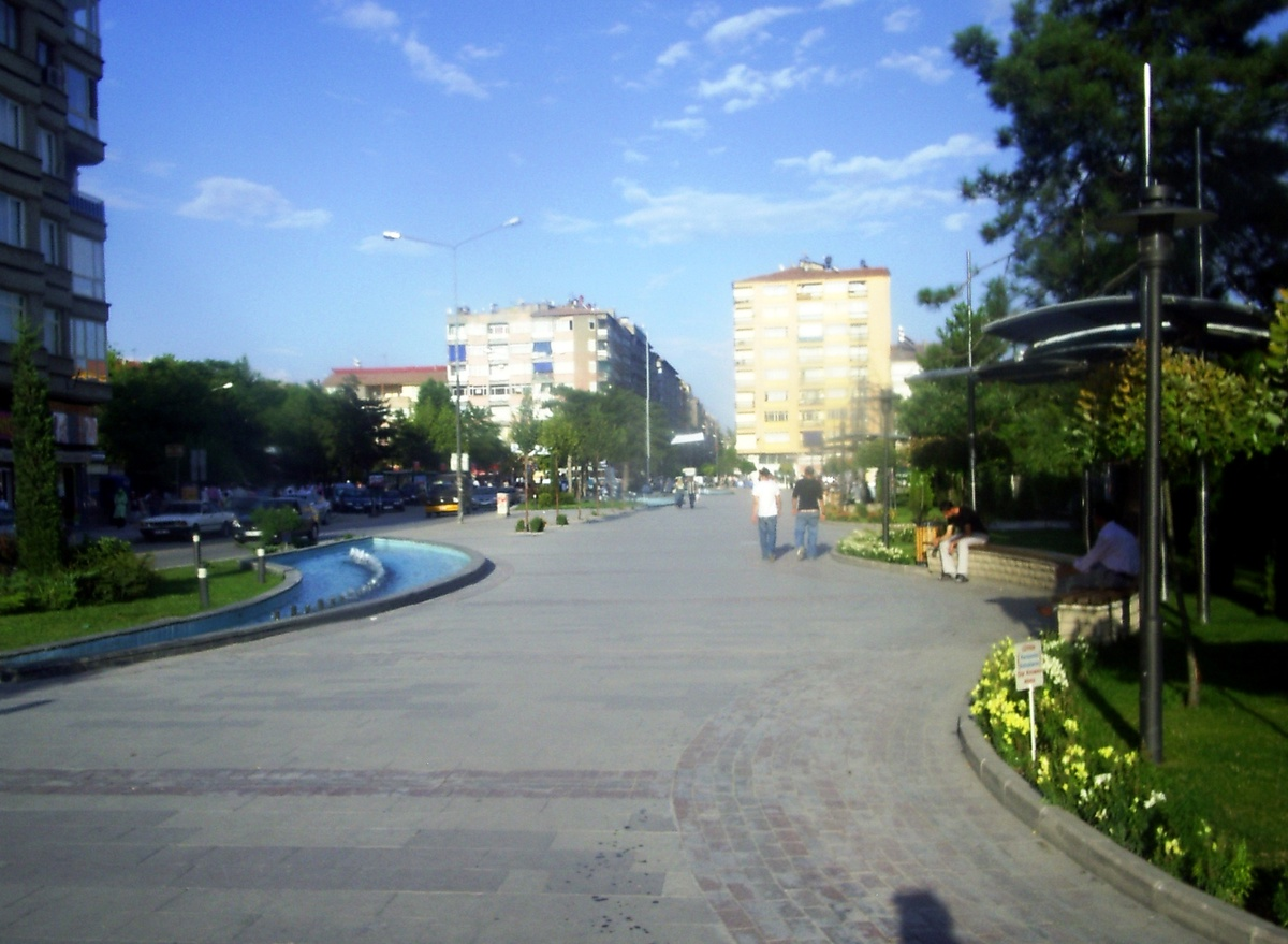 A wiew Elaziğ city in East Anatolian Region,Turkey